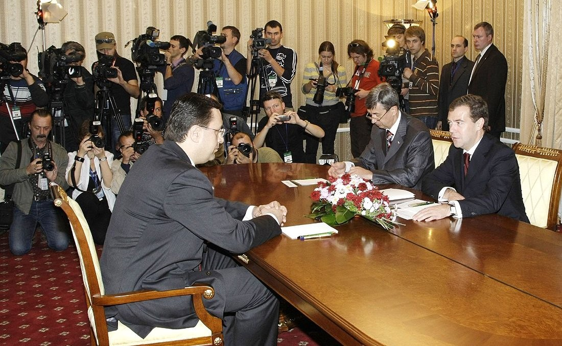 CHISINAU. With Marian Lupu, leader of the Democratic Party of Moldova.